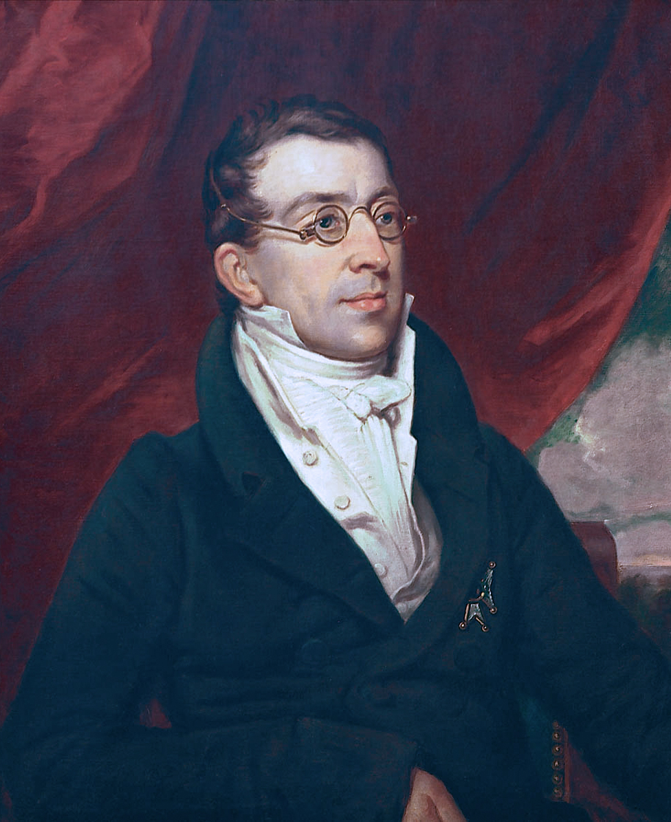 Elias Canneman, (1777-1861), minister van Financiën